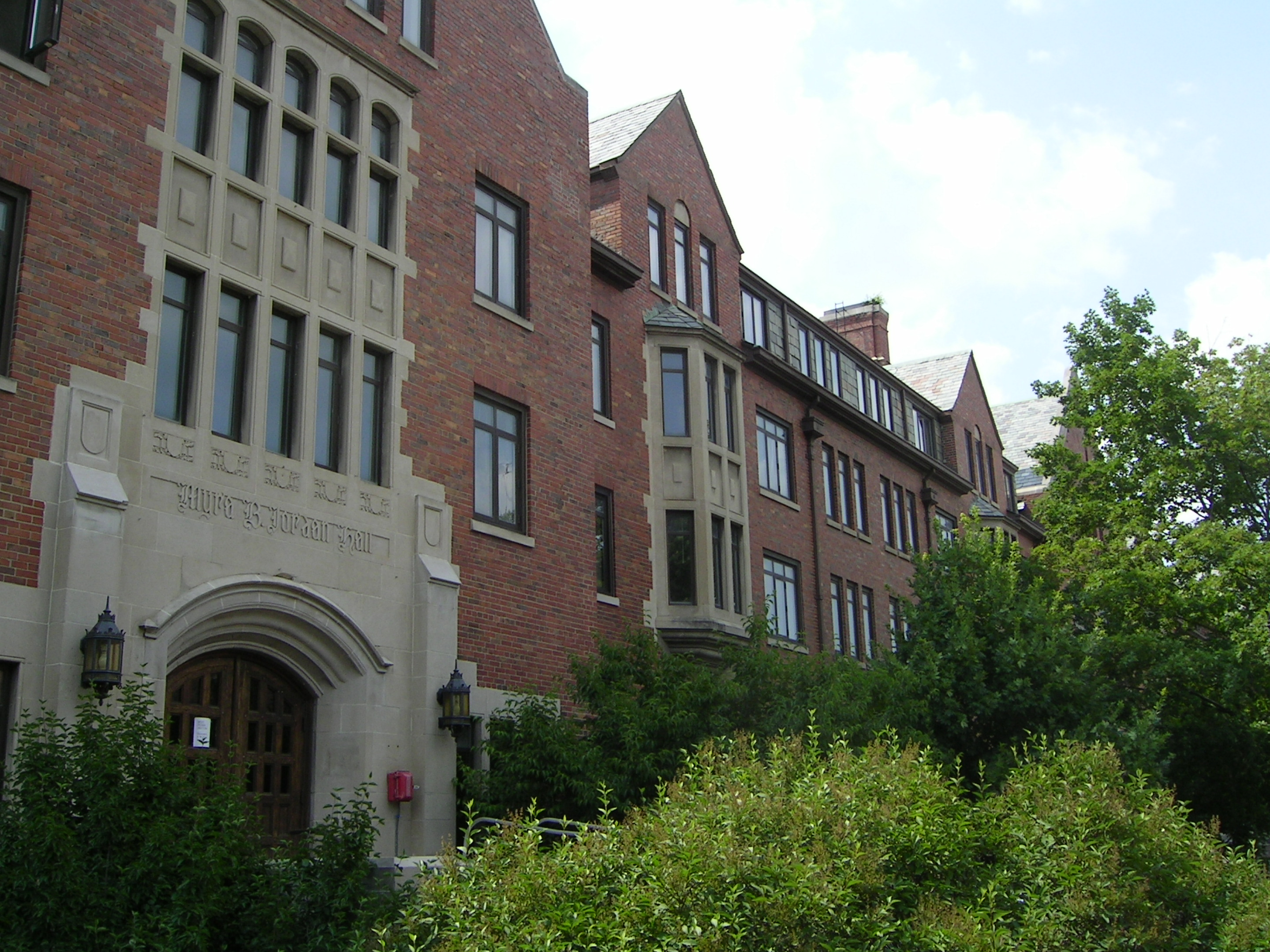 Own work, attribution required Scott Kashkin MosherJordanUM.jpg